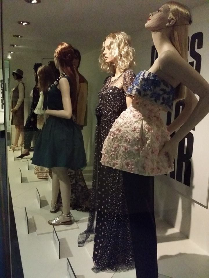 Assorted Dresses of the Year from 1963 to 2012 including (from foreground) Raf Simons for Dior (2012), Karl Lagerfeld for Chanel (2008), Alber Elbaz for Lanvin (2005) and at the far end, Mary Quant (1963)